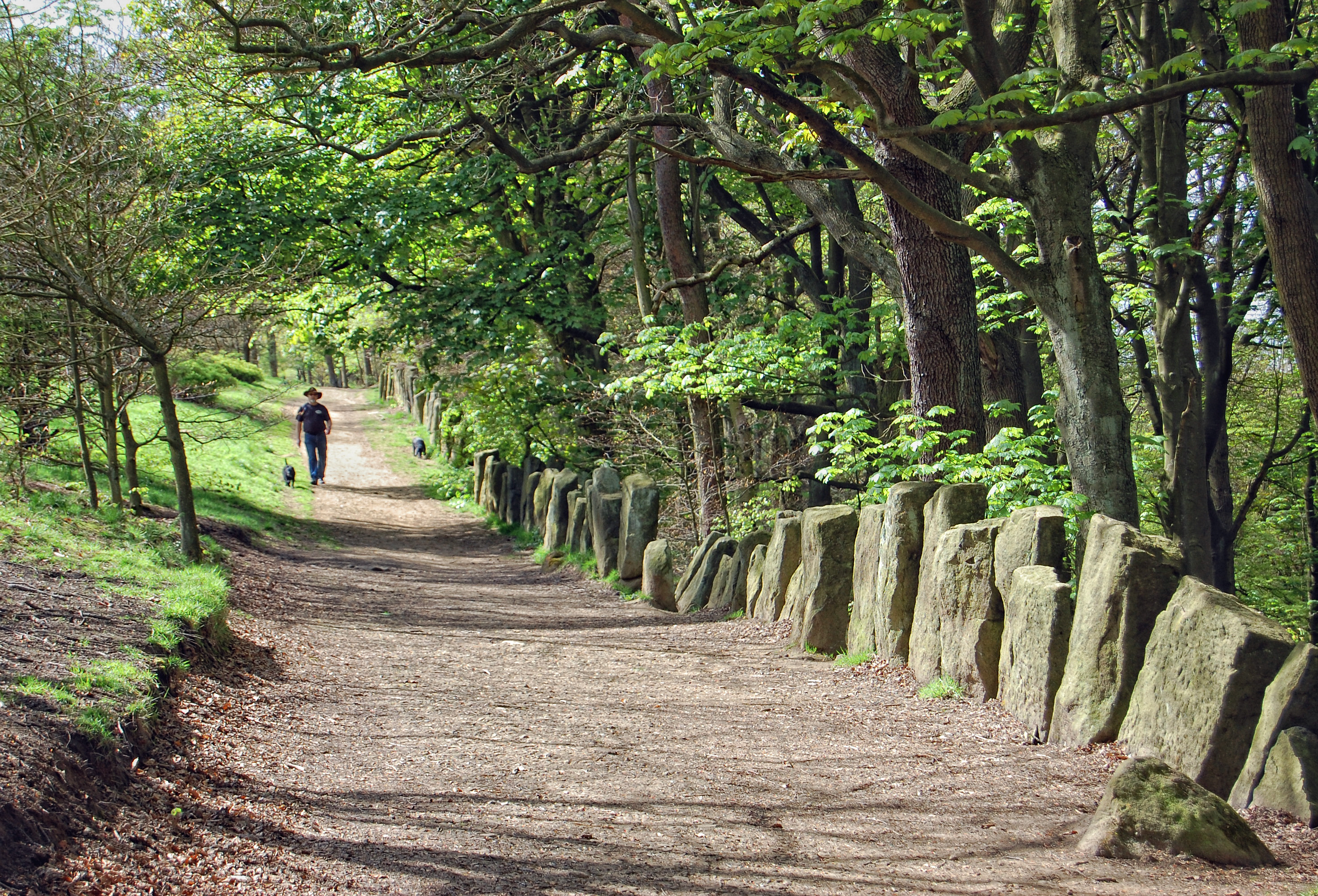 The provenance of this line of stones below Surprise View on Otley Chevin is unknown but they are undoubtedly of ancient origin, probably marking an old property boundary. Photographs from the 1800s show them standing just as they are today. For a seasonal contrast, you can see this spot covered in snow during the depths of winter in this shot.